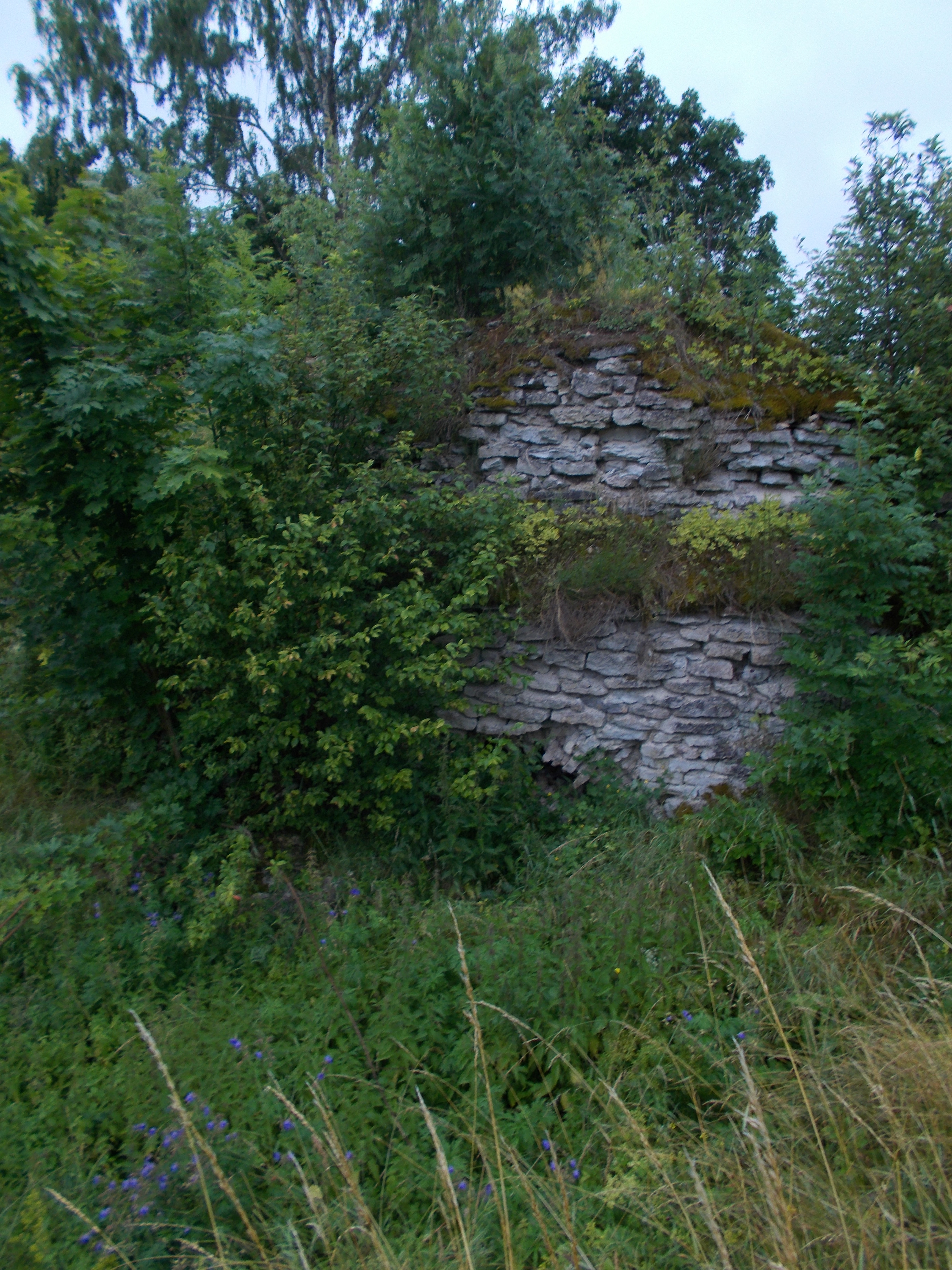 The northern wall of Rägavere Quarry is the stratotype of Rägavere member and Rakvere stage of the Ordovicium gechronology of the Eastern Europe.